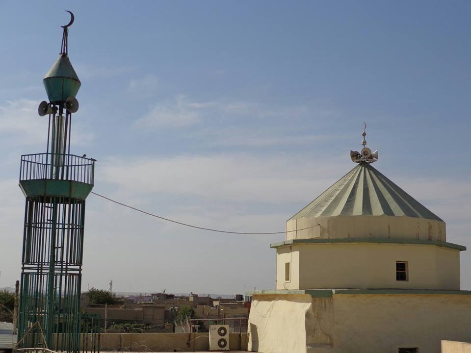 Mosque of Al-Imam Al-Baher in Mosul